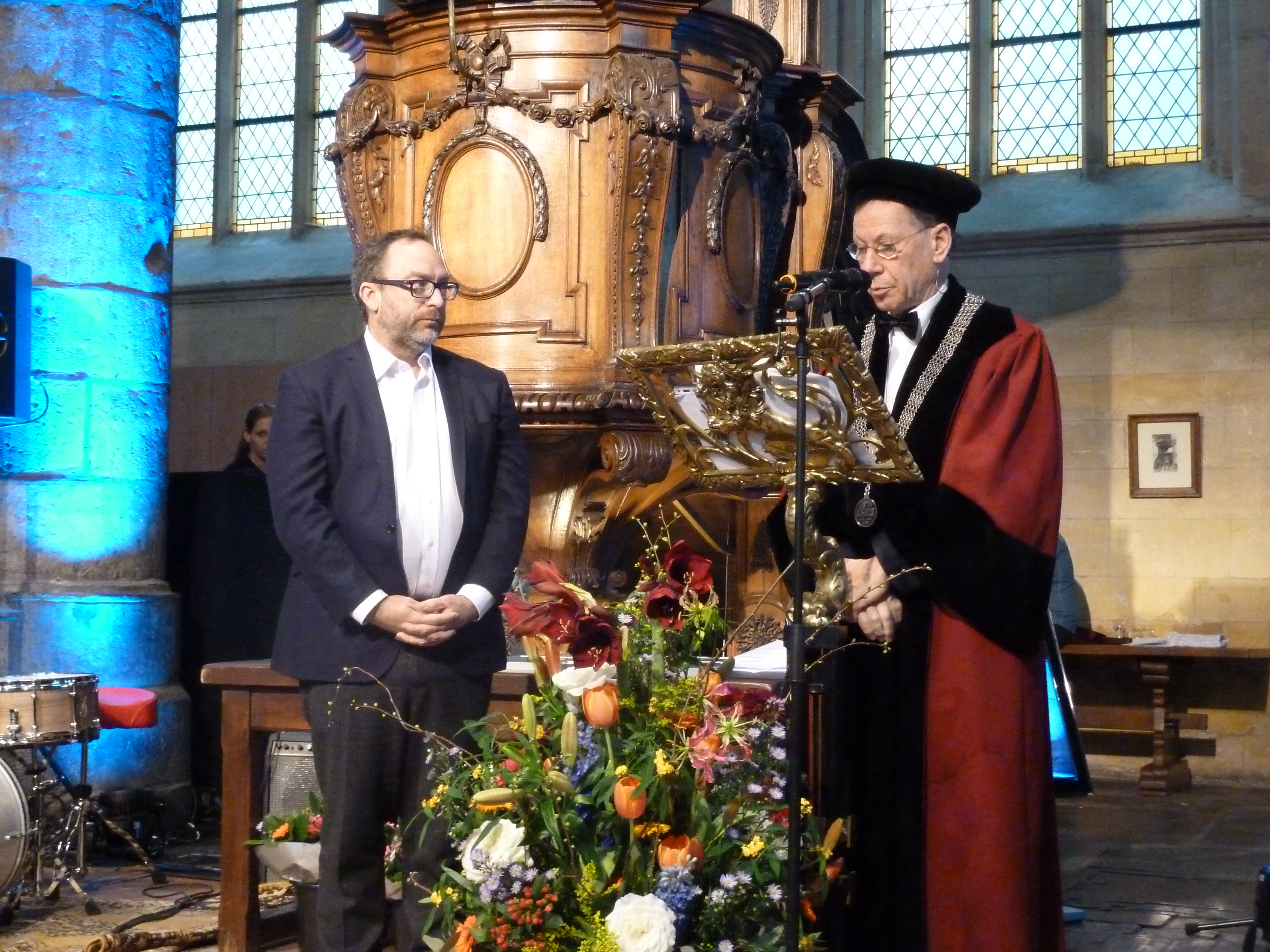 39th Dies Natalis of Maastricht University